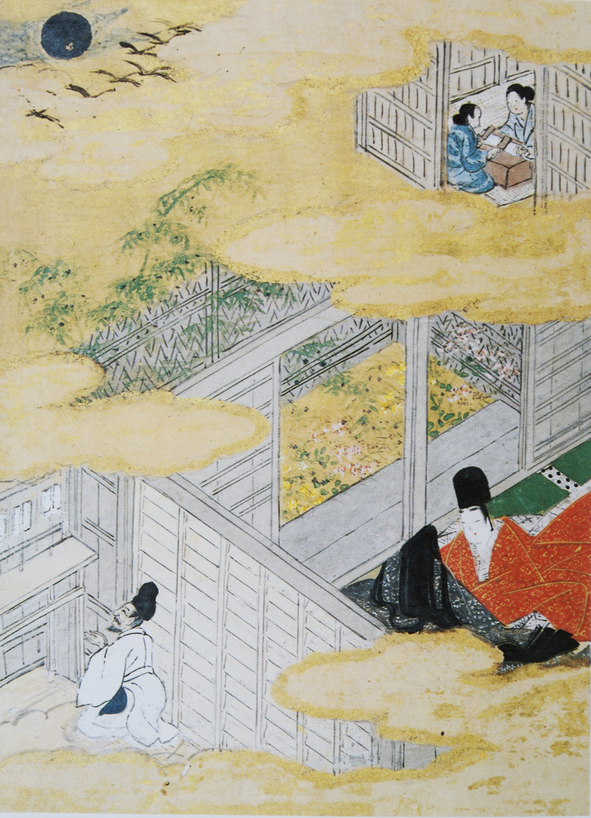 Illustrated Handscroll of The Tale of Genji